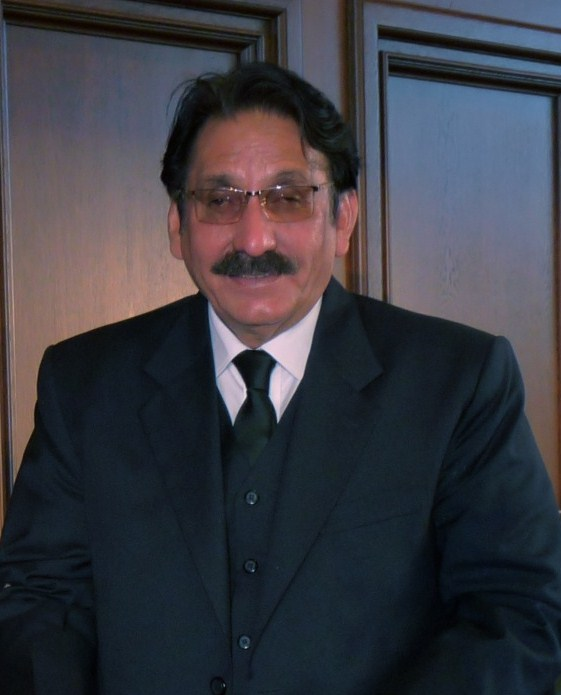 Iftikhar Muhammad Chaudhry, Chief Justice of the Pakistani Supreme Court.